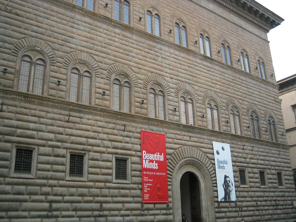 Palazzo Strozzi in Florence